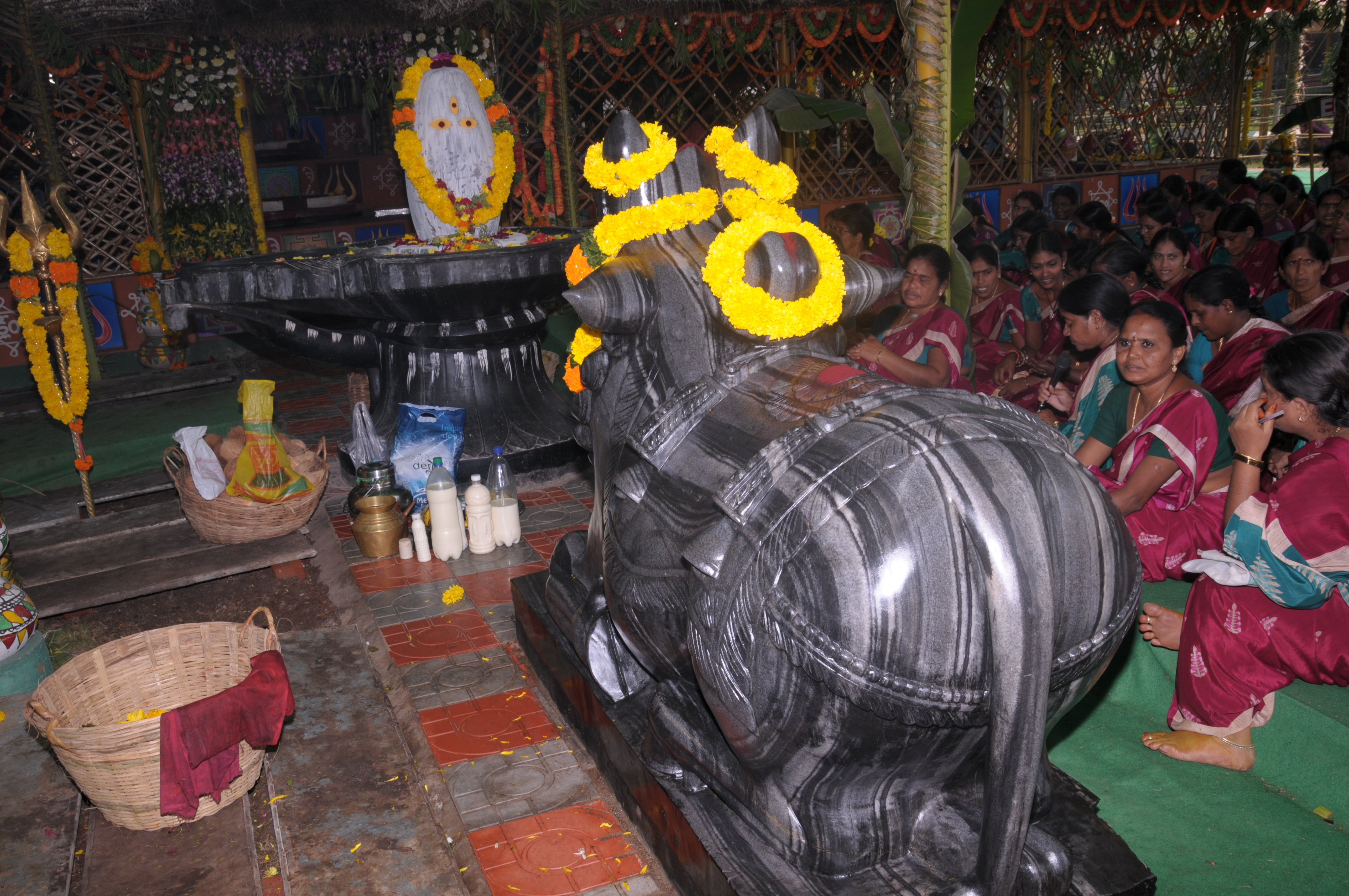 ananteswara swamy